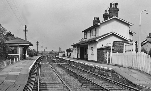 Broughton & Bretton Station. View NE, towards Chester; ex-London & North Western Chester - Mold - Denbigh line. The station closed to ordinary passengers on 30/4/62 but remained for Workmen services (? to the adjacent Military Depot) until 2/9/63 and to goods until 4/5/64, when the line closed.